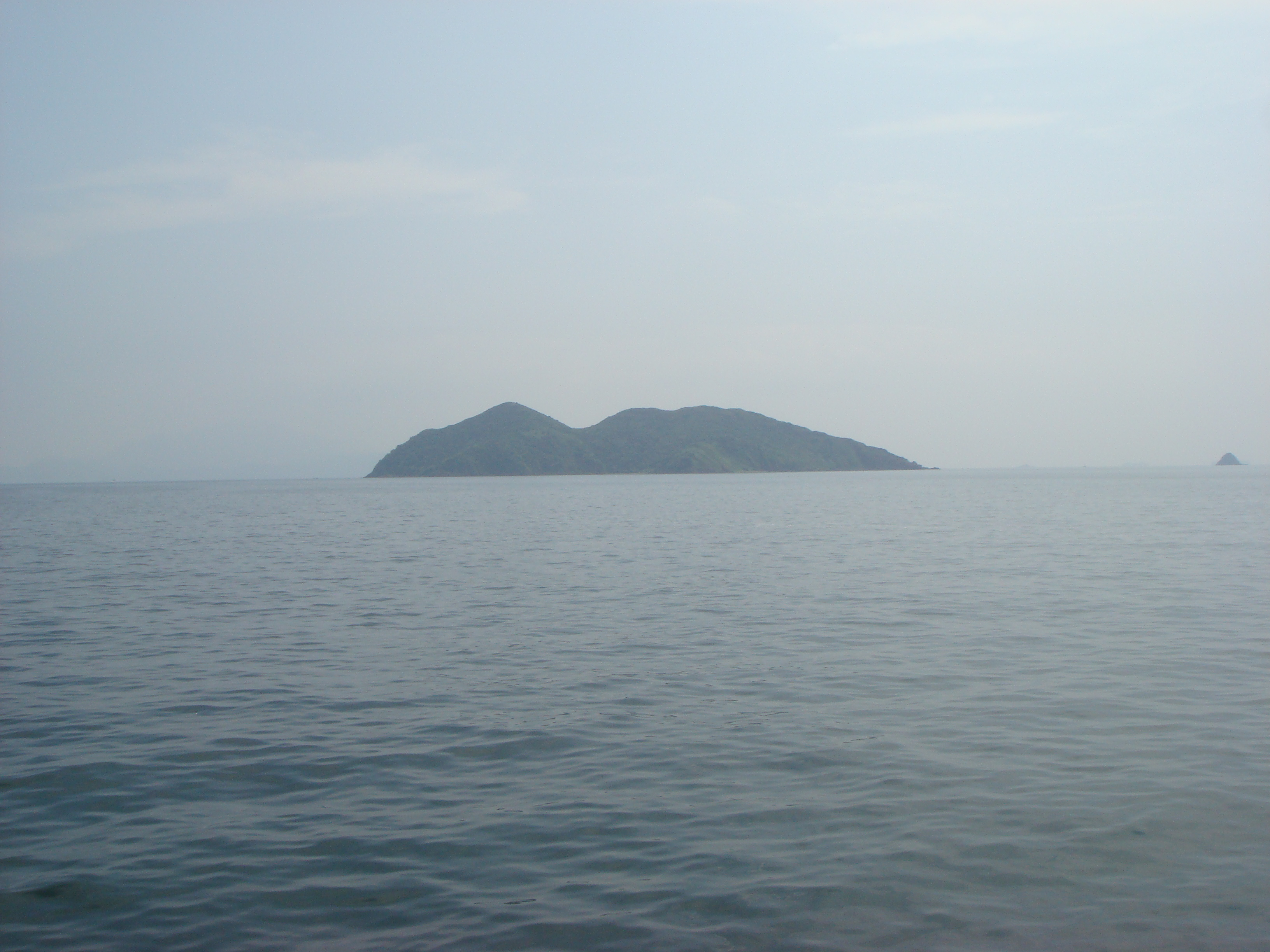 Port Island and Cham Pai viewed from Tolo Channel.